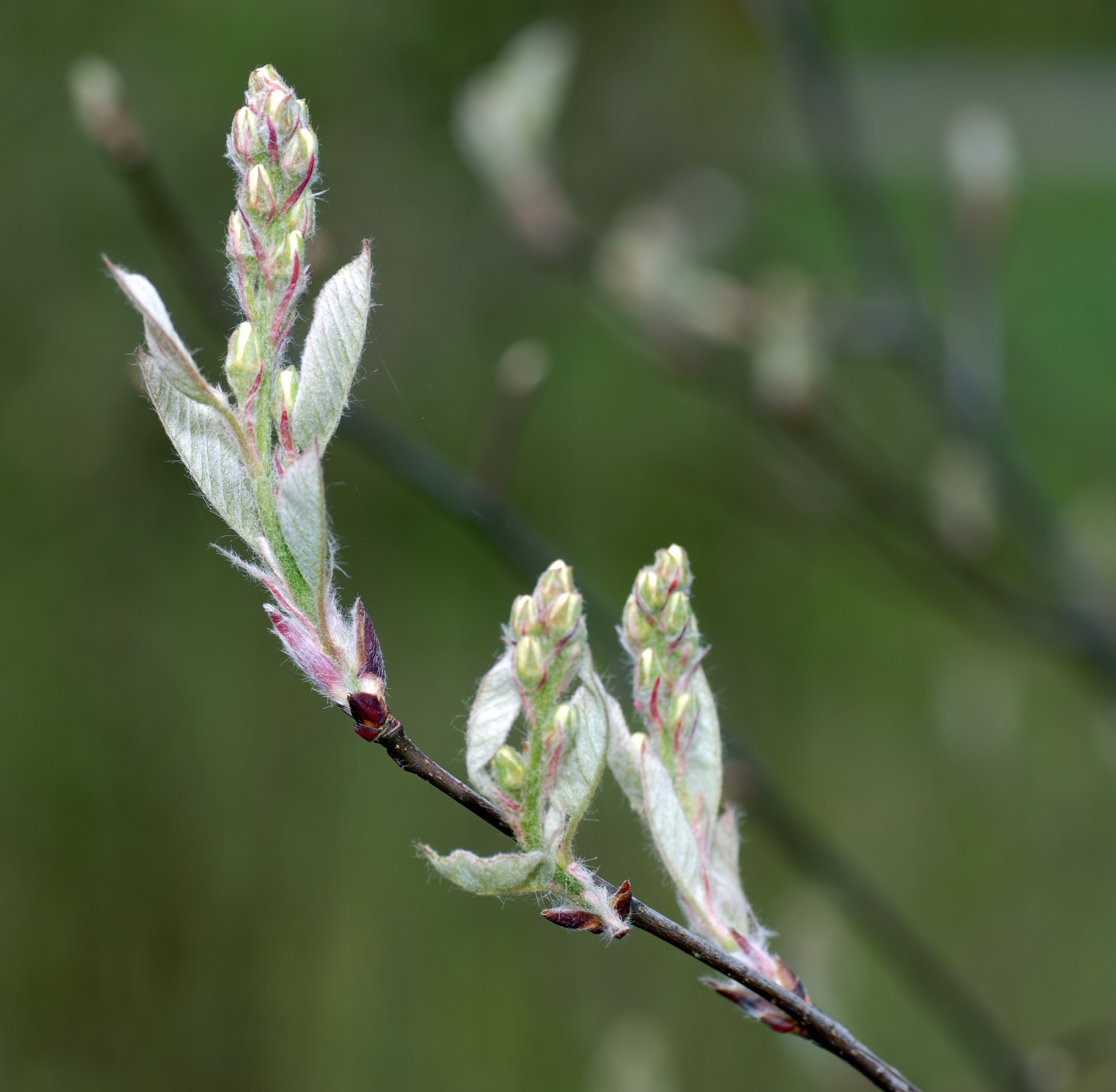 This image shows a young shoot of a Dwarf serviceberry (Amelanchier spicata).